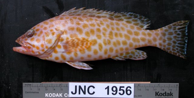 Epinephelus areolatus, photo on black background, fork length 22 cm, weight 156 grams, from off Nouméa, New Caledonia